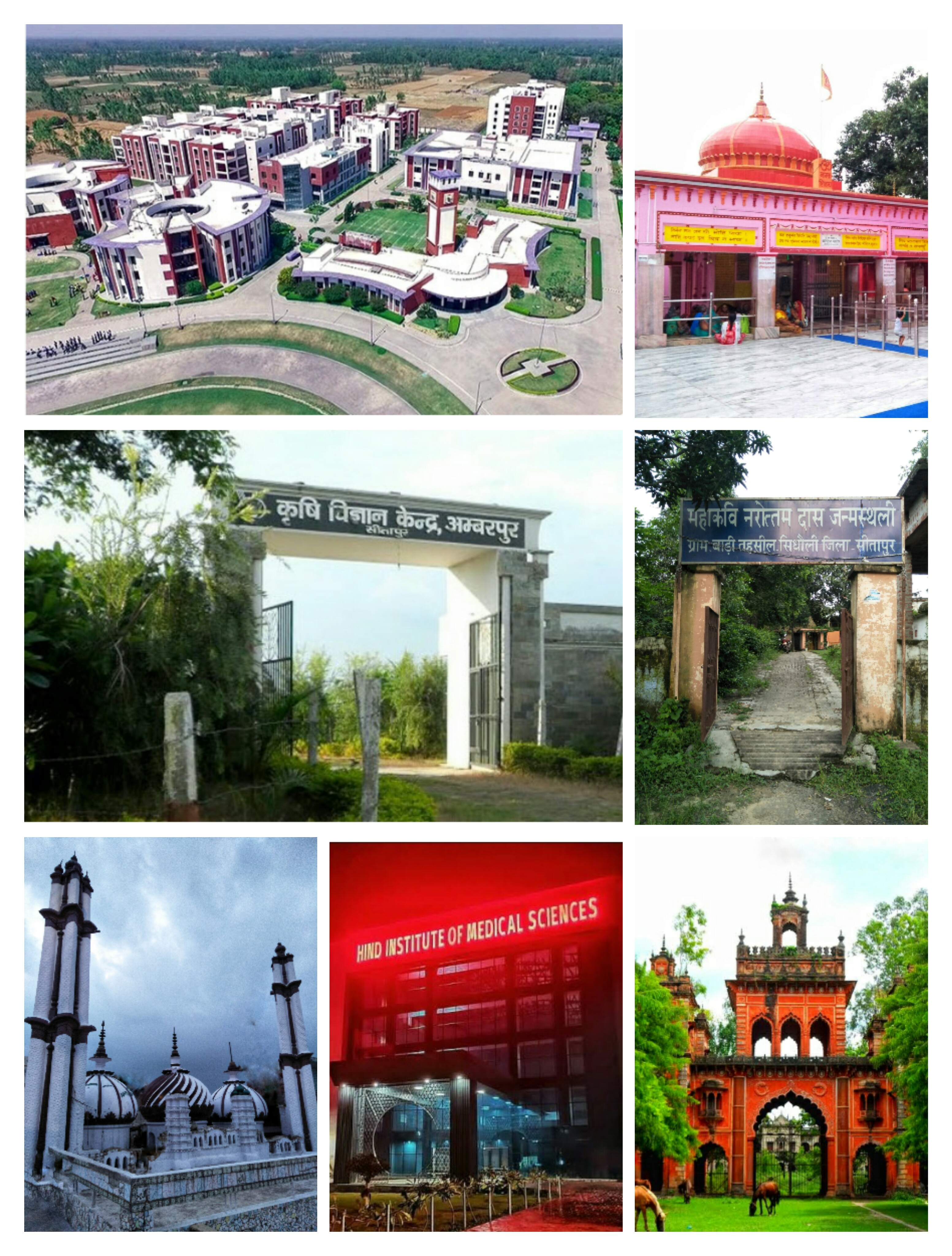 विद्याज्ञान स्कूल सिद्धेश्वर मंदिर नरोत्तमदास जन्मस्थली कसमंडा किला हिंदु अस्पताल जामा मस्जिद एवं कृषि विज्ञान केंद्र